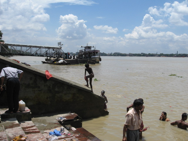 The steamer jetty photographed from Bagbazar Ghat, Kolkata on Hooghly River